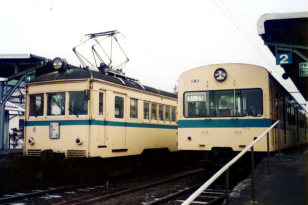 Ichibata Electric Railway EMU No.6(left), No.181(right)Kawato station, Izumo City, Shimane, Japan.